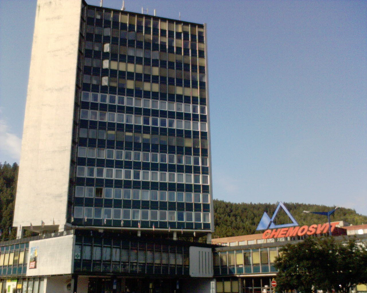 Svit (Chemosvit), Slovakia